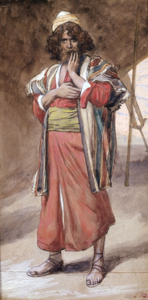 Jacob, c. 1896-1902, by James Jacques Joseph Tissot (French, 1836-1902), gouache on board, 9 9/16 x 4 13/16 in. (24.4 x 12.3 cm), at the Jewish Museum, New York